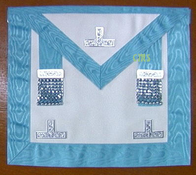 Installed Master Freemason apron